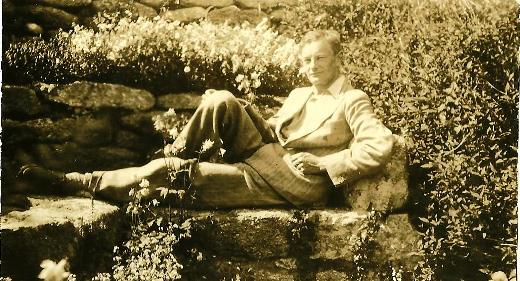 Arnold-Forster in a garden at Bordighera, Italy ca 1911-1914